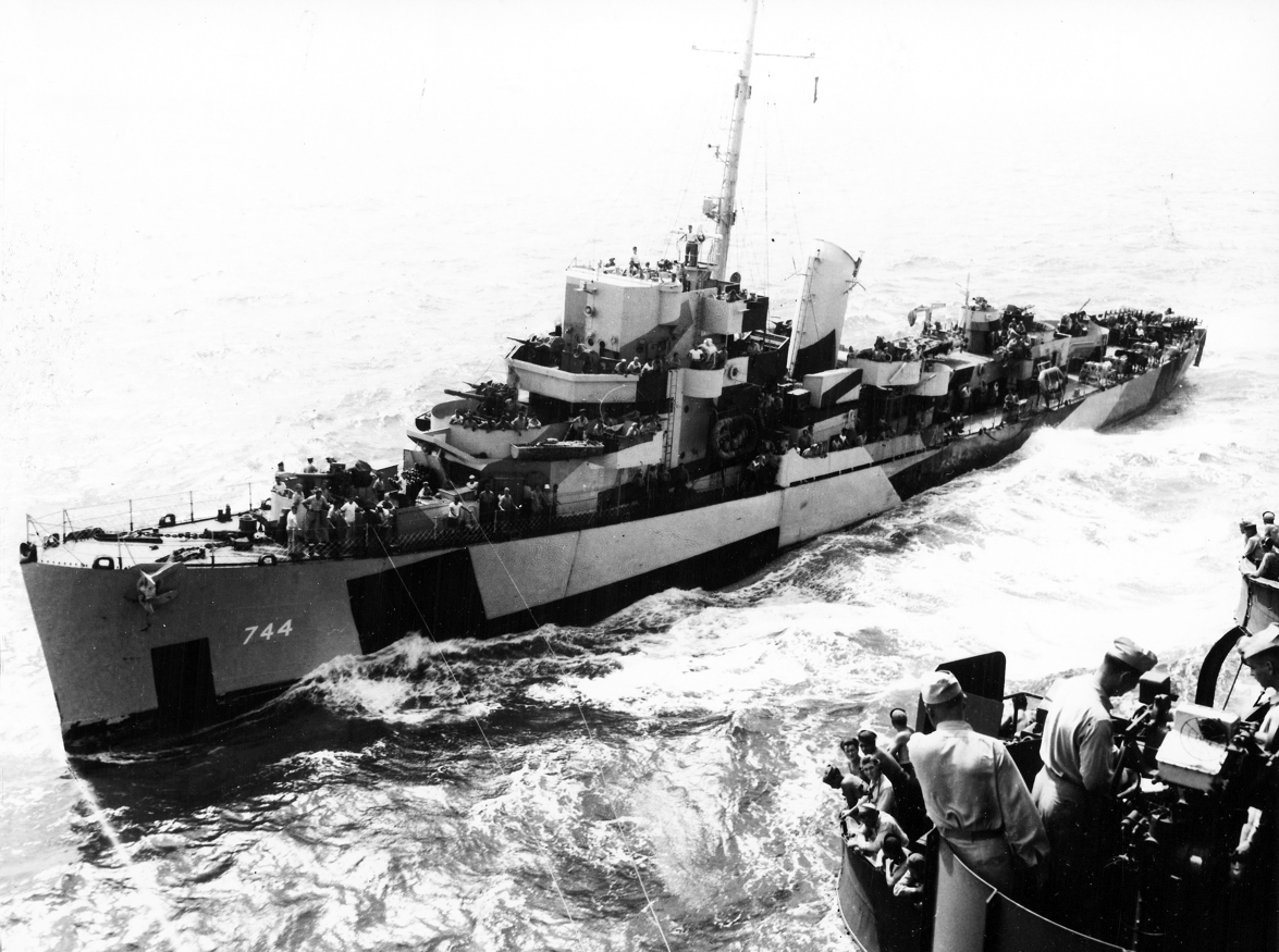 The U.S. Navy destroyer escort USS Kyne (DE-744) comes alongside of the heavy cruiser USS Boston (CA-69) in the Pacific Ocean, in June 1945. Kyne is painted in Camouflage Measure 31, Design 24D.